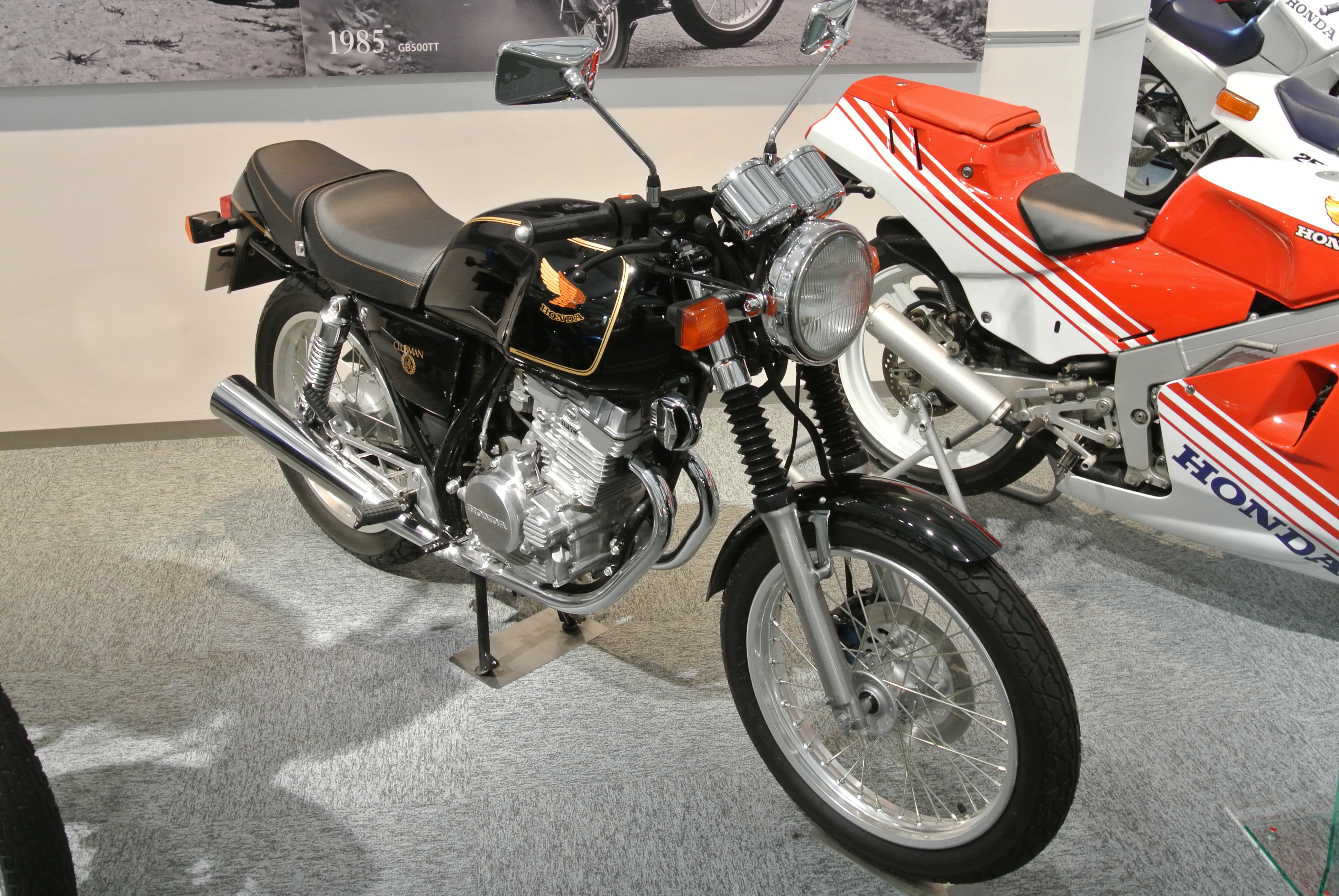 Honda GB250 CLUBMAN in the Honda Collection Hall.